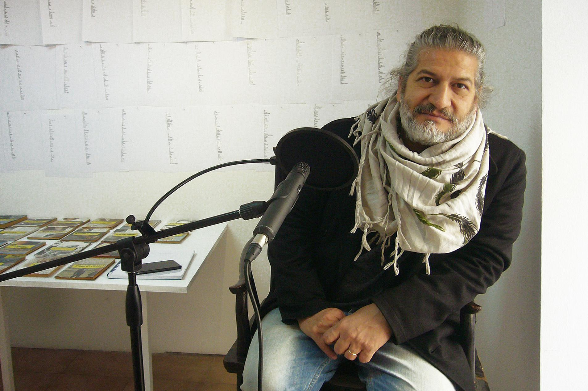 Portrait of the artist